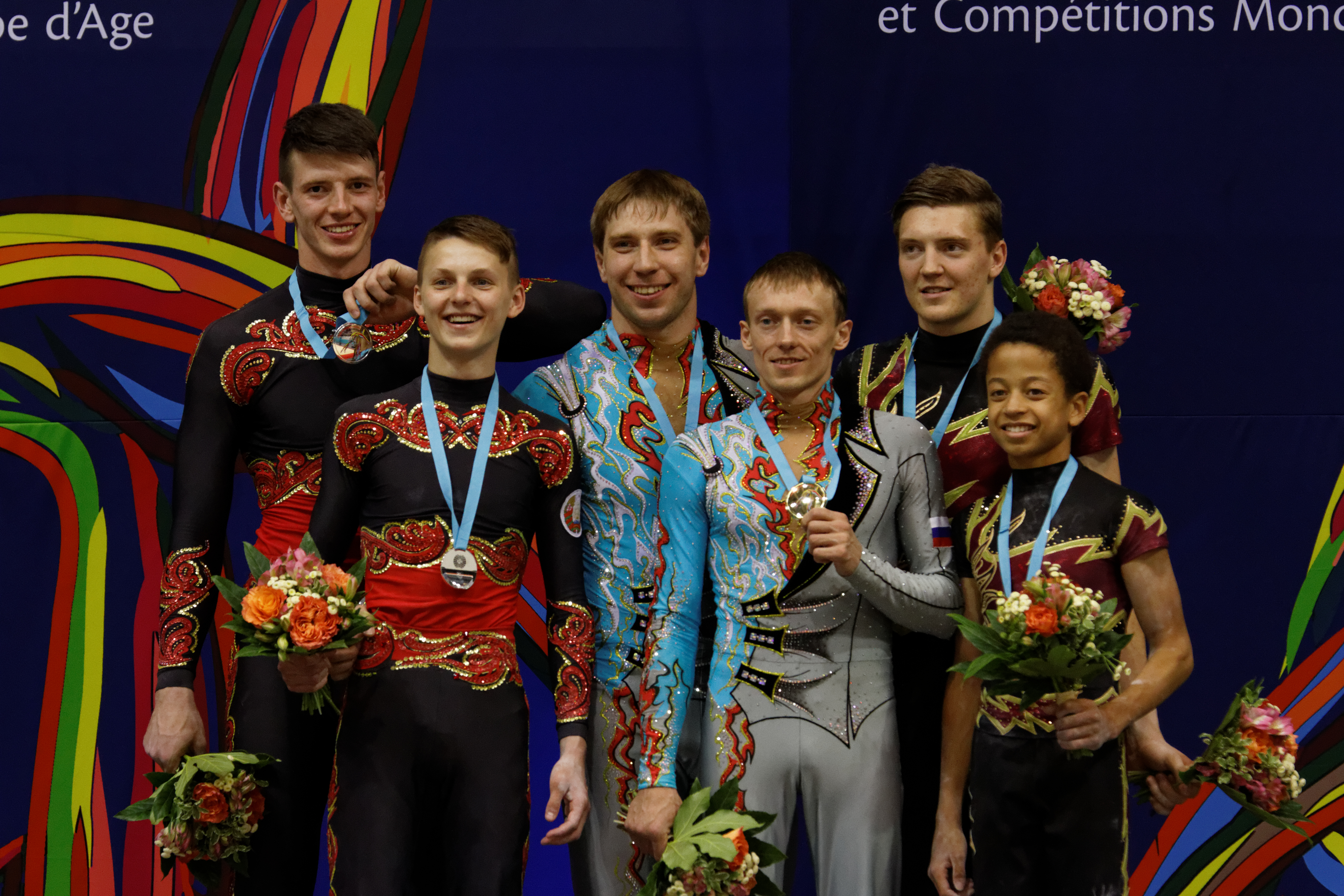 2014 Acrobatic Gymnastics World Championships, 10th-12 July, Levallois-Perret, France. Awarding ceremony.